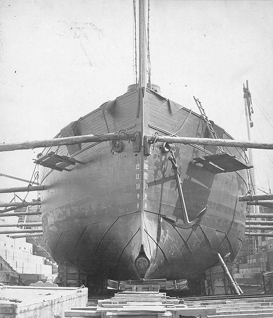 A bow view photograph, taken in dry dock, circa the 1870s. Note the torpedo projection device at her forefoot, pattern of her hull plating and the anchor hanging from her port hause pipe.